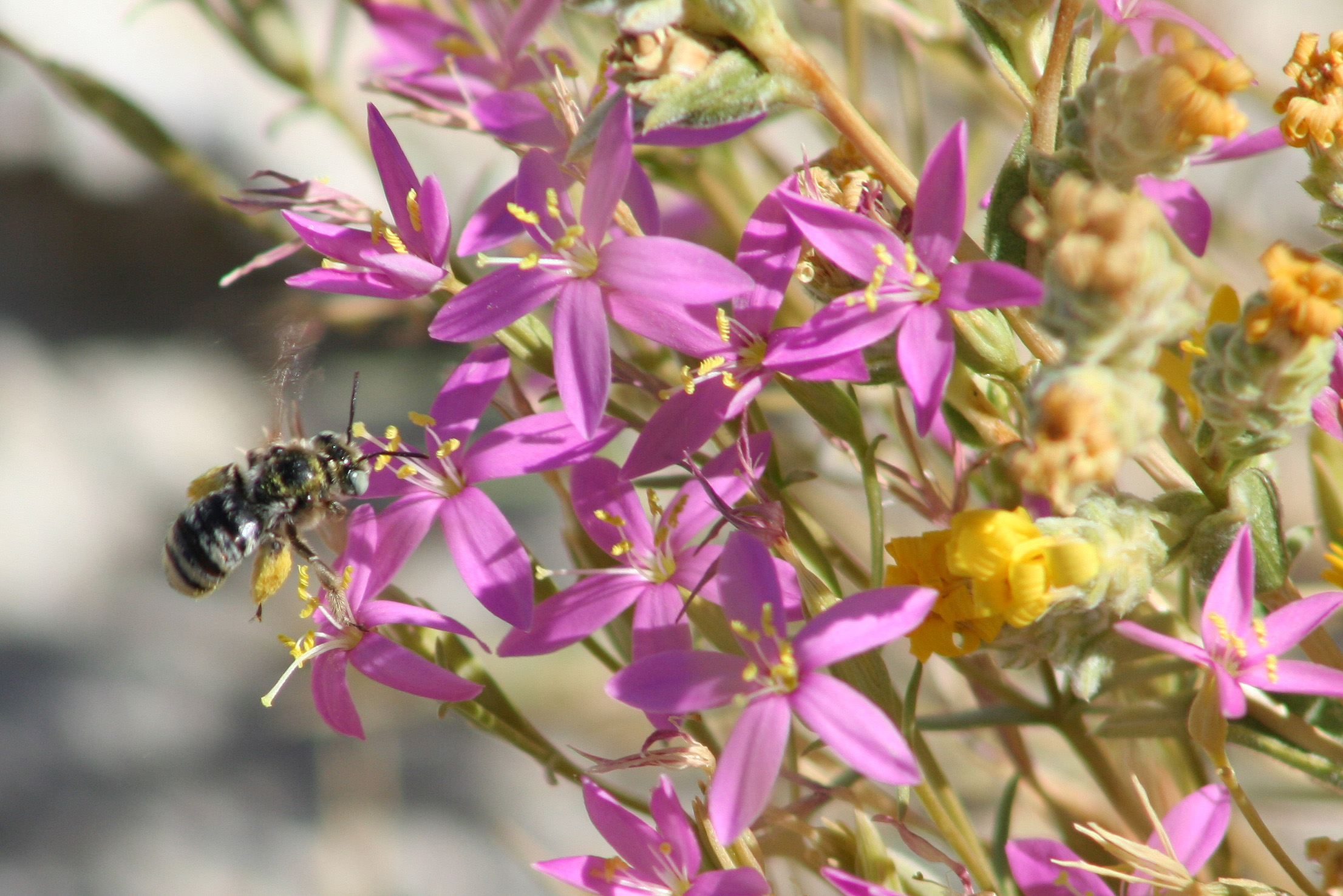 Found "no where else on earth" --The spring-loving centaury, Centaurium namophilum, is considered to be endemic to the Ash Meadows area (meaning it is definitely found within the refuge borders but also in adjacent federal and private lands. According to local botanists, the centaury populations found approximately 50 miles away in Beatty, Nevada and Death Valley, California are considered taxonomically distinct subspecies. Although it is very hot here in the summer -- with the temperature frequently topping 110 degrees -- this is when the centaury blooms (July - September). The species of centaury is adapted to mesic alkaline clay soils. Ash Meadows is known for over 26 species of plants and animals found no where else on earth and is located approximately 90 miles from Las Vegas, Nev. (USFWS Photo by Cyndi Souza)